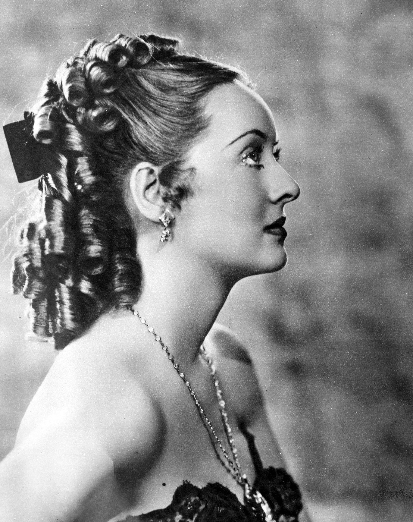 Photo of actress Bette Davis. A search for renewals was done in publications for the years 1965 and 1966. There were no listings for this magazine's title; there's no evidence of continuing copyright for the magazine.